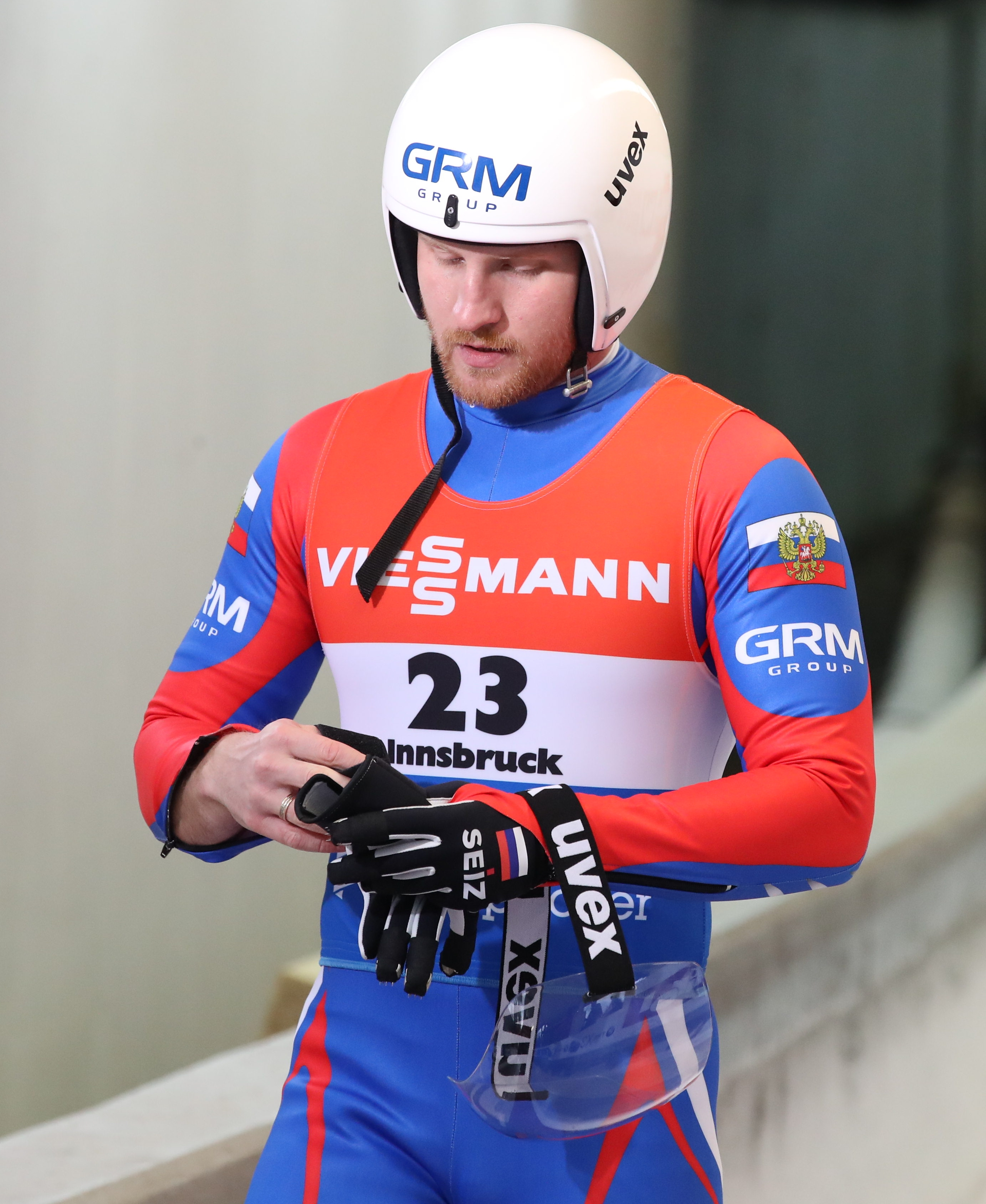 Doubles World Cup race at the 2019/20 Luge World Cup in Innsbruck-Igls